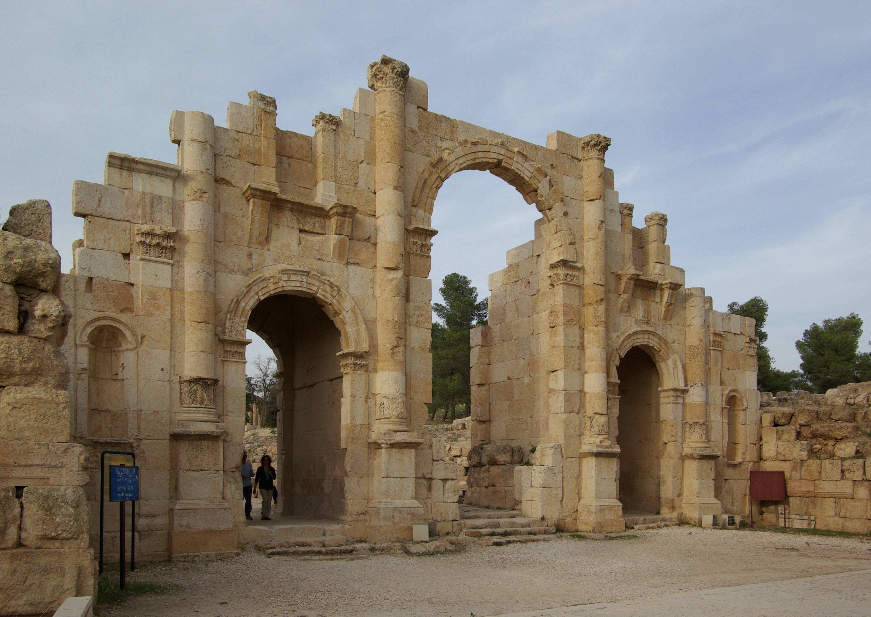 Jerash, South gate